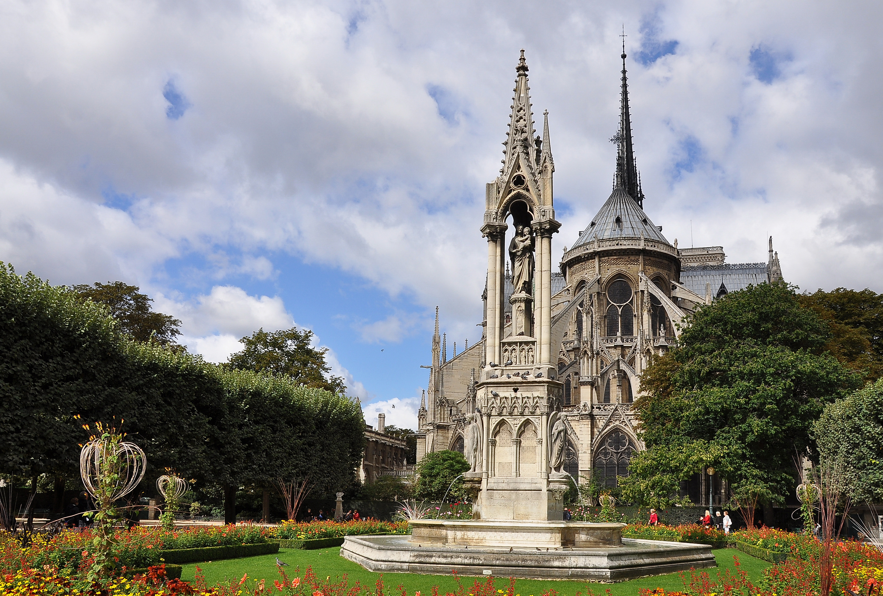 Fontaine de l'Archevêché or Fontaine de la Vierge is located near the Cathedrale Notre-Dame in 4th district of Paris. Built in 1845 by architect Alphonse Vigoureux and Louis-Parfait Merlieux (sculptor).